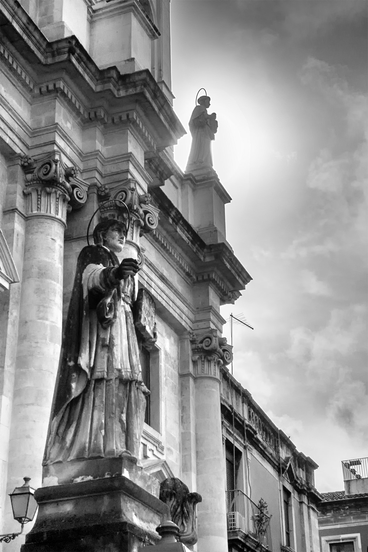 500px provided description: ... [#church ,#black and white ,#statue ,#saints ,#baroque]